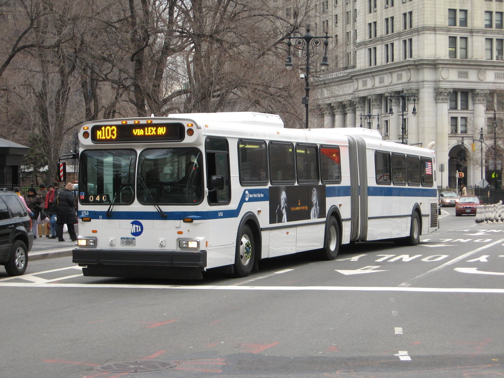 NYCTA New Flyer D60HF bus 5753 by City Hall in Manhattan on the M103.